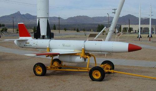 Beechcraft MQM-107A Streaker target drone at the White Sands Missile Range Museum